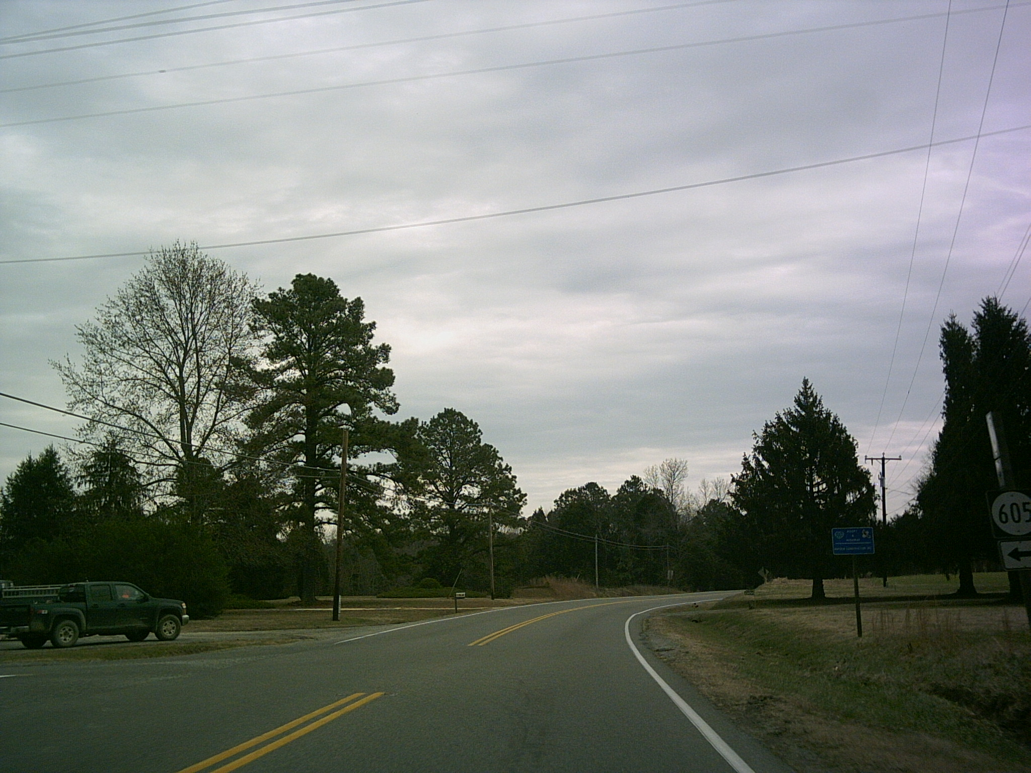 Image taken by me for Wikipedia